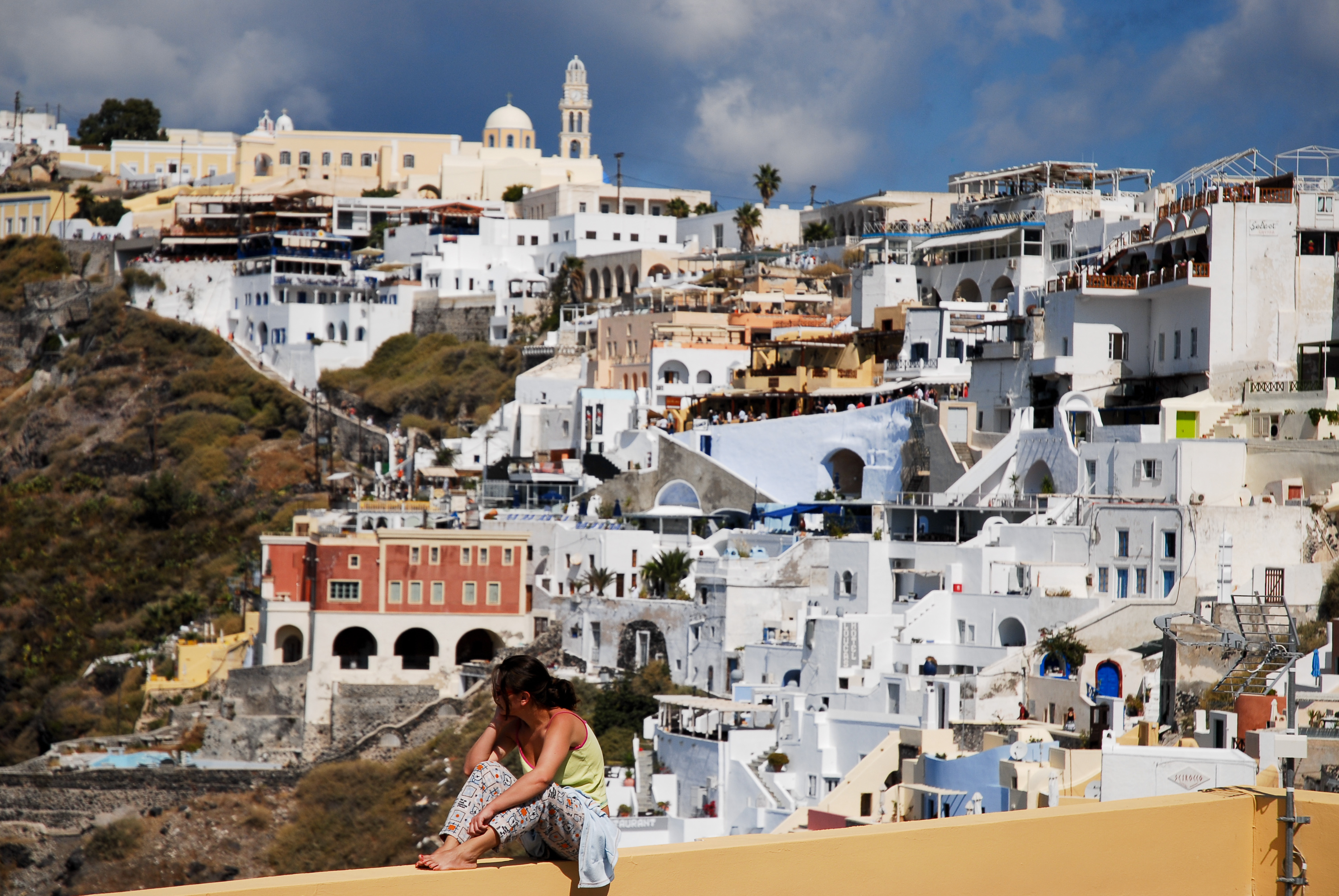 Panoramic view of the Catholic quarter of Fira, Fira, Santorini island (Thira), Greece.